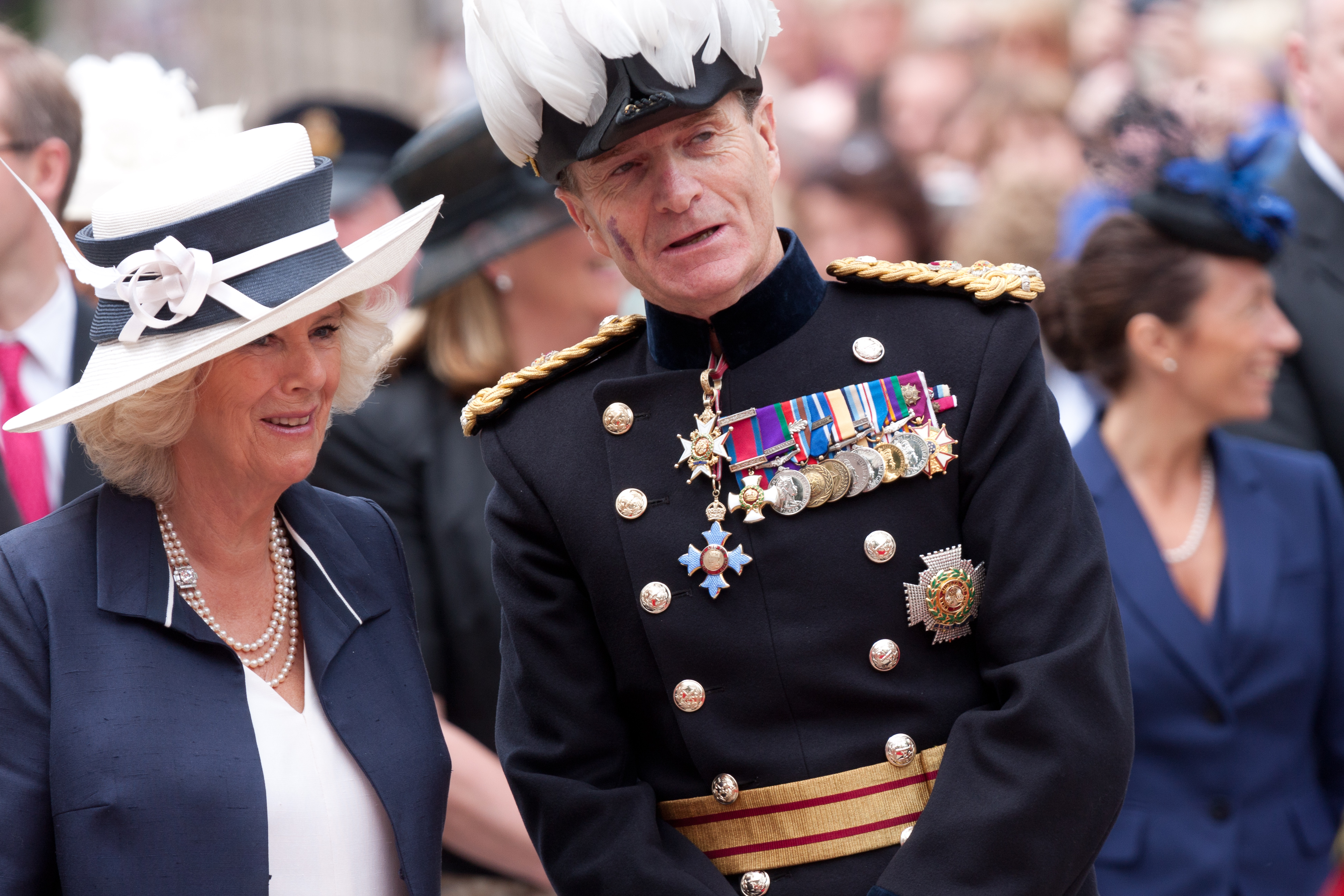 Camilla, The Duchess of Cornwall and the General Sir John McColl.